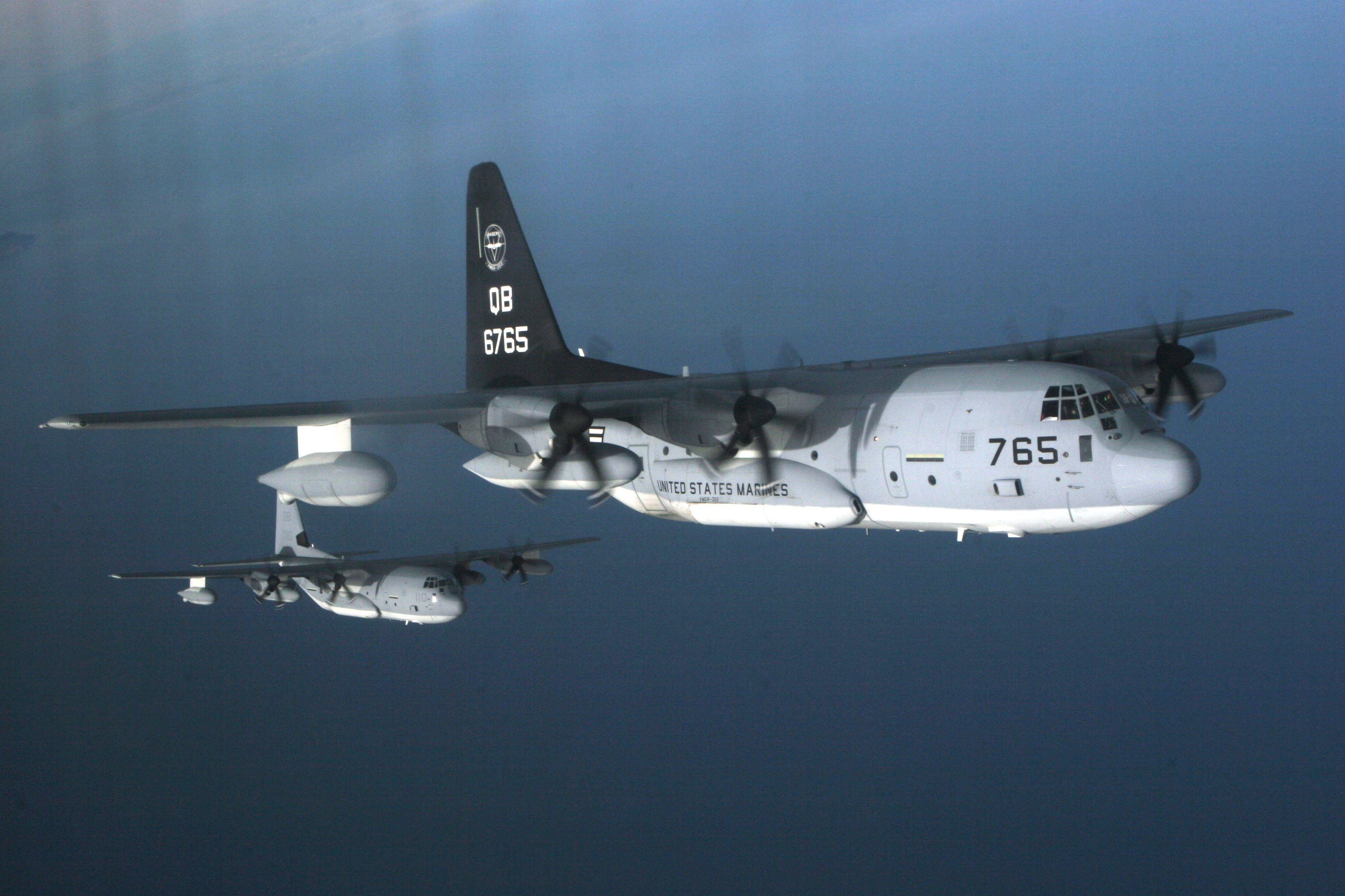 PACIFIC OCEAN (Feb. 5, 2007) - Two KC-130J Hercules aircraft, assigned to Marine Aerial Refueler Transport Squadron (VMGR) 352, stagger themselves during a refueling training exercise off the coast of Southern California. VMGR-352 frequently conducts these exercises to keep themselves proficient in their duties. U.S. Marine Corps photo by Lance Cpl. Kelly R. Chase (RELEASED)